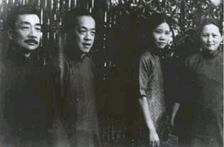 China League for Civil Rights (from right to left)Soong Ching-ling, Lin Peihua(Soong's secretary), Hu Yuzhi and Lu Xun